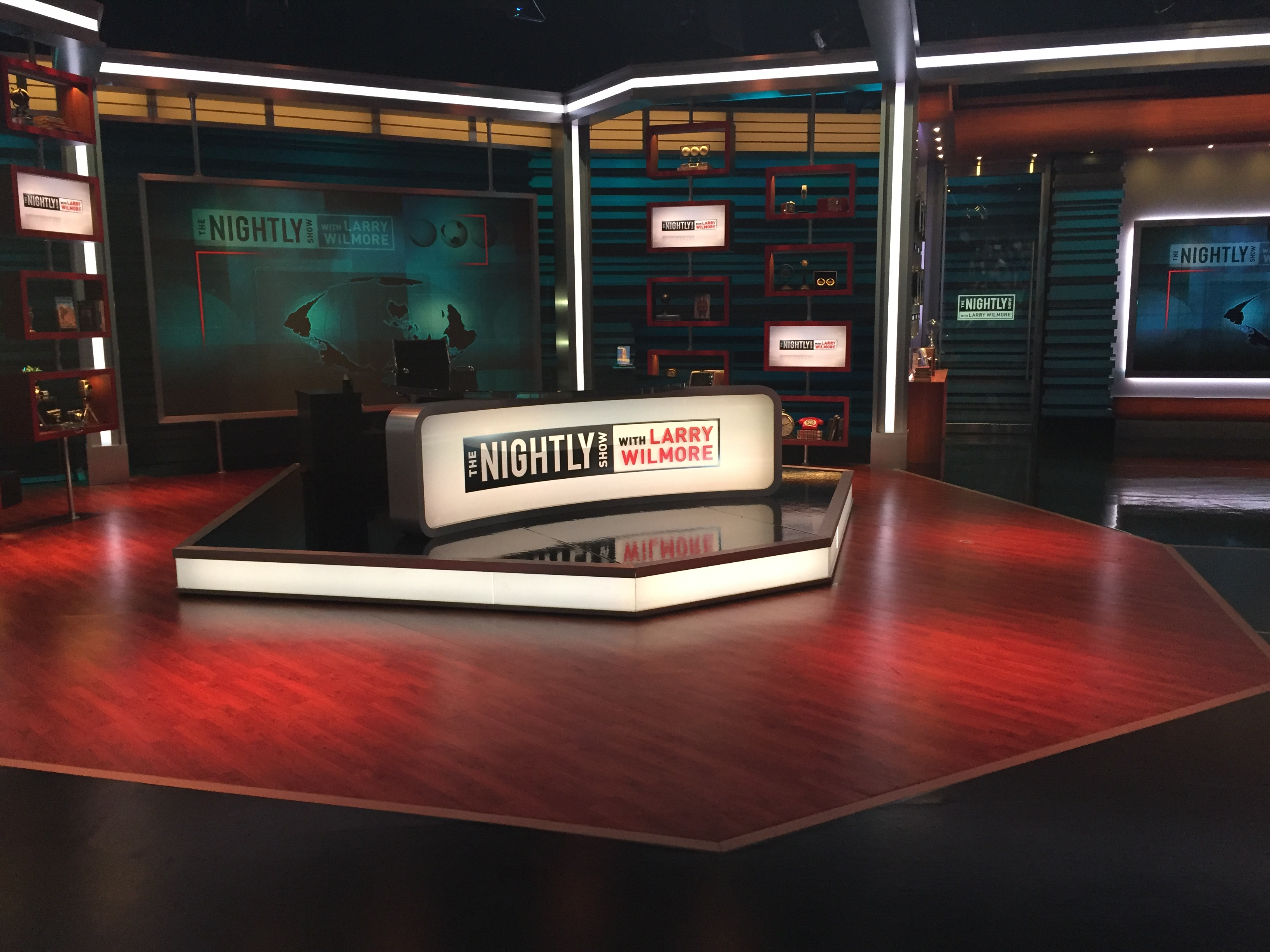 The set of The Nightly Show with Larry Wilmore. Taken before a live taping.